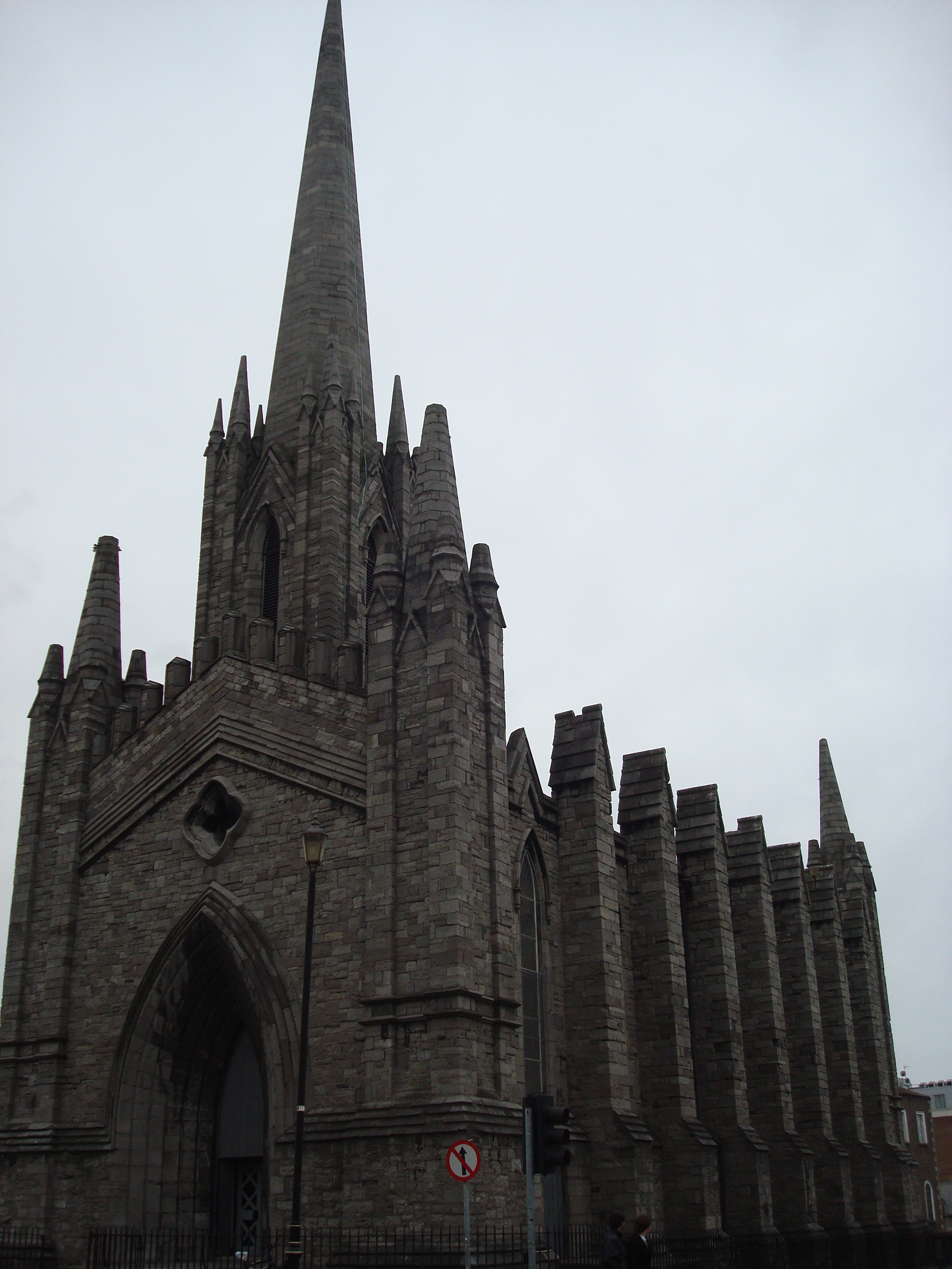 St. Mary's Chapel of Ease, Dublin. Also known as the Black Church